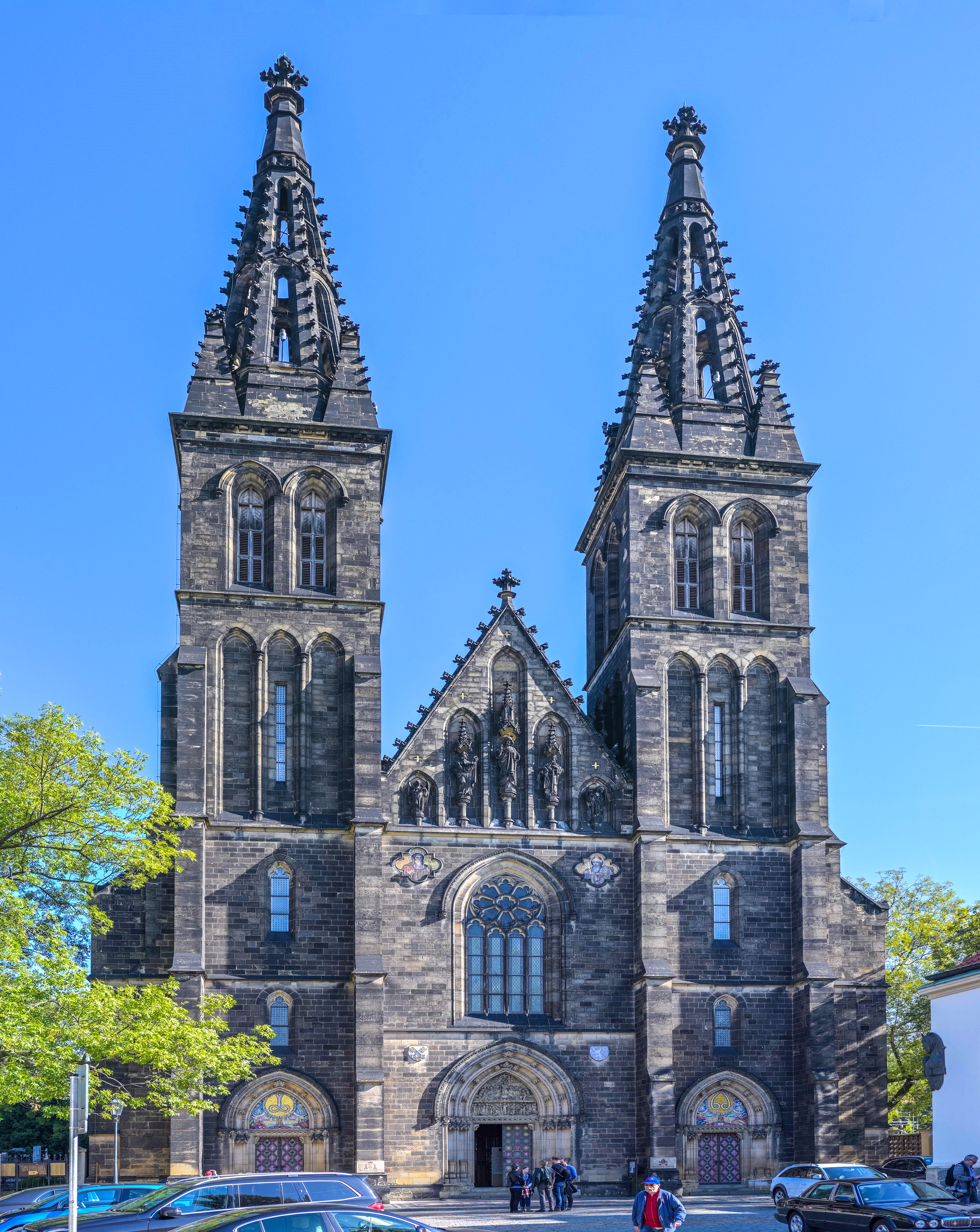 Prague, Czech Republic, October 2018